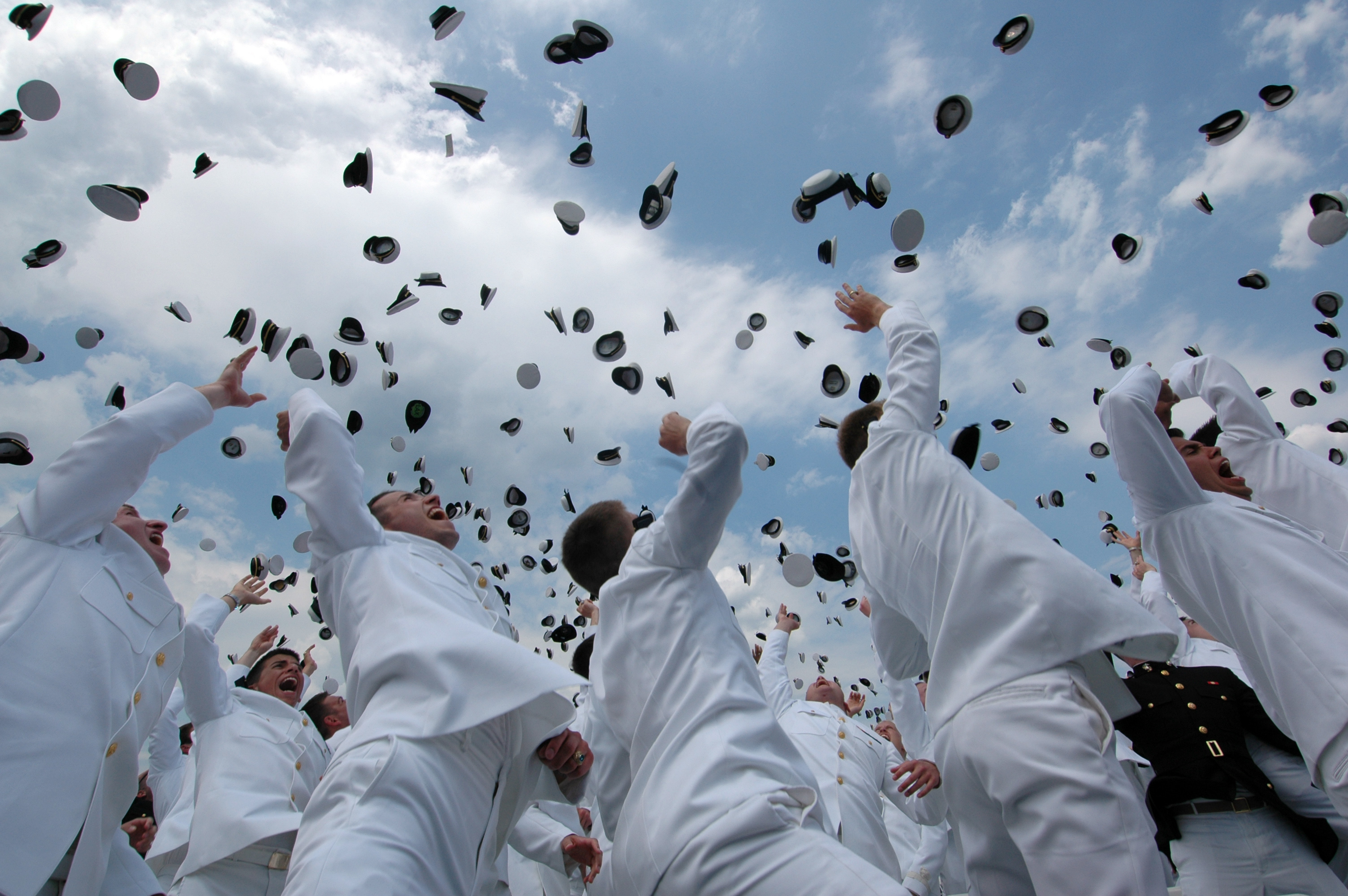 050527-N-0295M-001 Annapolis, Maryland (May 27, 2005)—Newly commissioned officers celebrate their new positions by throwing their midshipmen covers into the air as part of the U.S. Naval Academy class of 2005 graduation and commissioning ceremony. The "hat toss," now a traditional ending to the ceremony, originated at the Naval Academy in 1912. The "hat toss" has since become a symbolic and visual end to the four-year program. Nine hundred-seventy six Midshipmen graduated from the U.S. Naval Academy and became commissioned officers in the U.S. Military. President George W. Bush delivered the commencement address and personally greeted each graduate during the ceremony. The men and women of the graduating class were sworn into the Navy as Ensigns or into the Marine Corps as Second Lieutenants. U.S. Navy photo by Photographer's Mate 2nd Class Daniel J. McLain (RELEASED) Above description was provided by User:Durin and obtained from English Wikipedia Image:AnnapolisGraduation.jpg